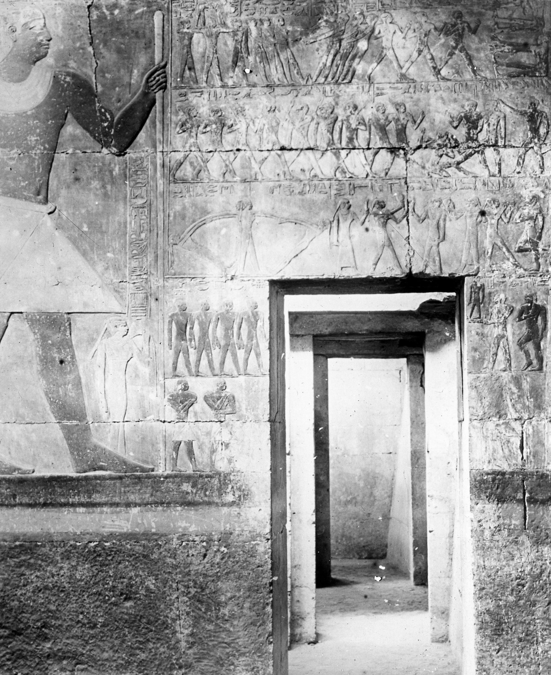 Lantern Slide Collection: Views, Objects: Egypt. Sakkara [selected images]. View 20: Tomb of Mera, Sakkara. Dy. 6., n.d. Brooklyn Museum Archives (S10.08 Sakkara, image 9953).